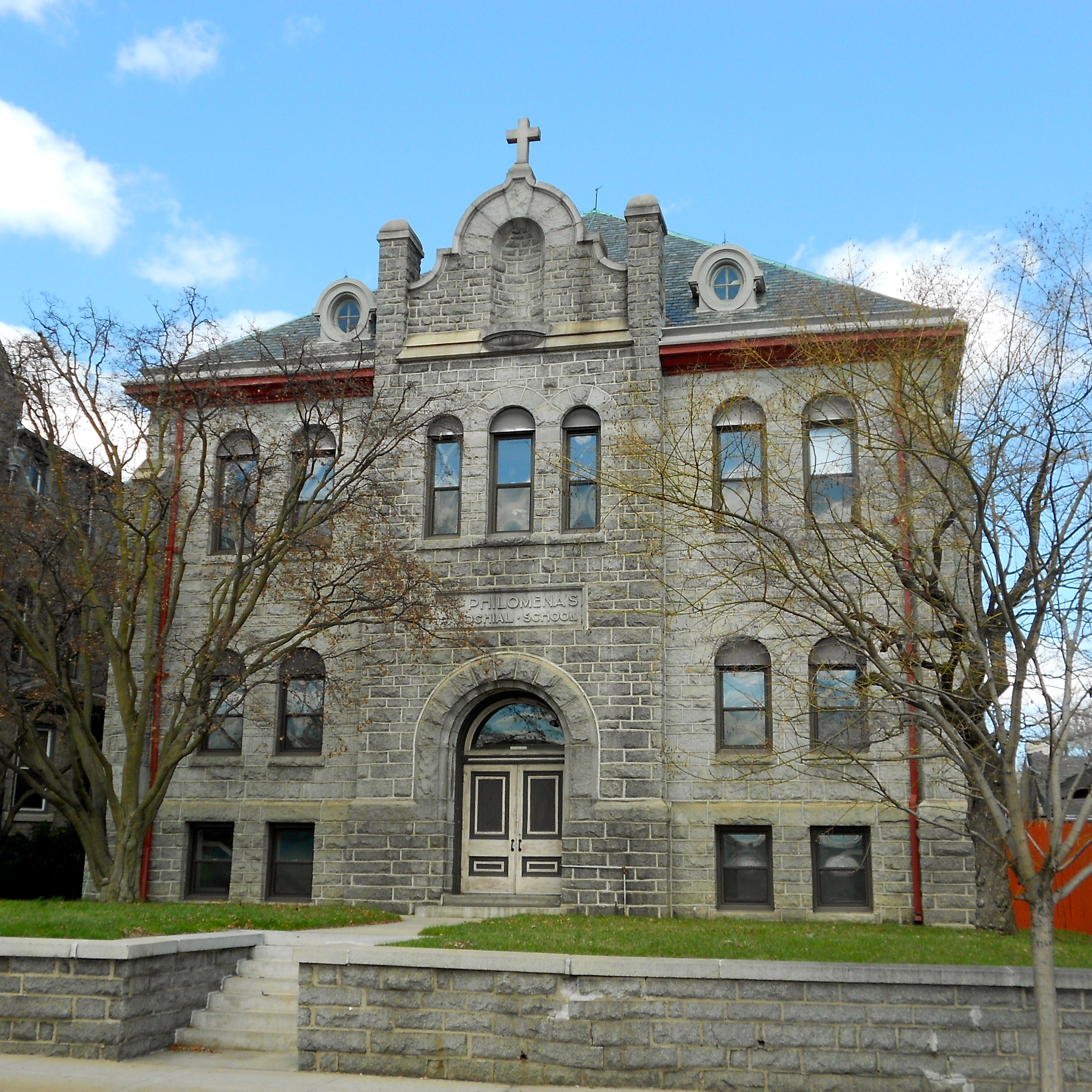 St. Philomena school in Lansdowne, Pennsylvania. Closed for several years.